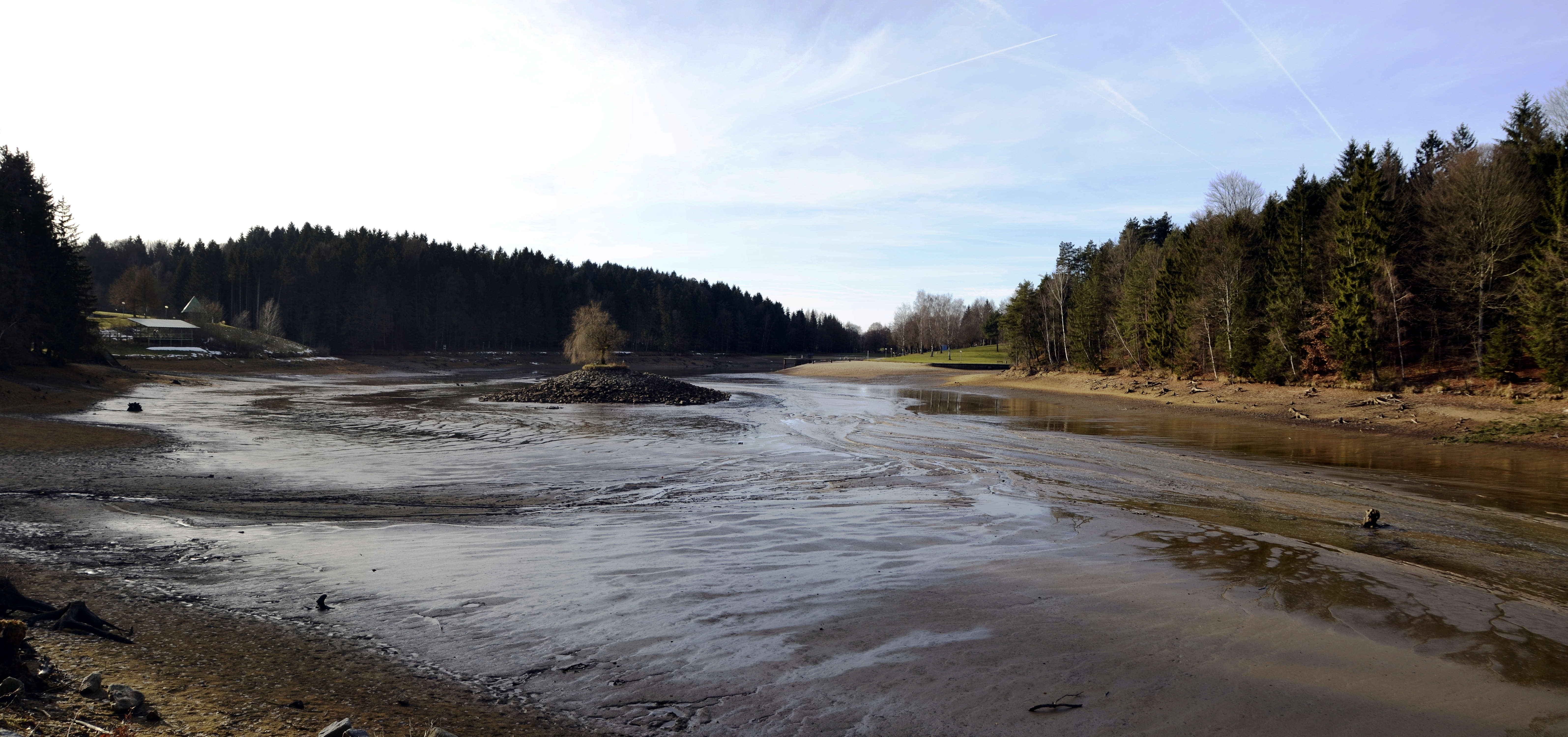 The emptied artificial lake Eginger See in Bavaria.